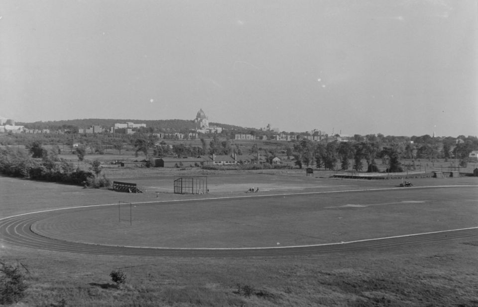 We have an overview of a new baseball field in Ville Mont-Royal. In the background we see the Saint Joseph's Oratory.